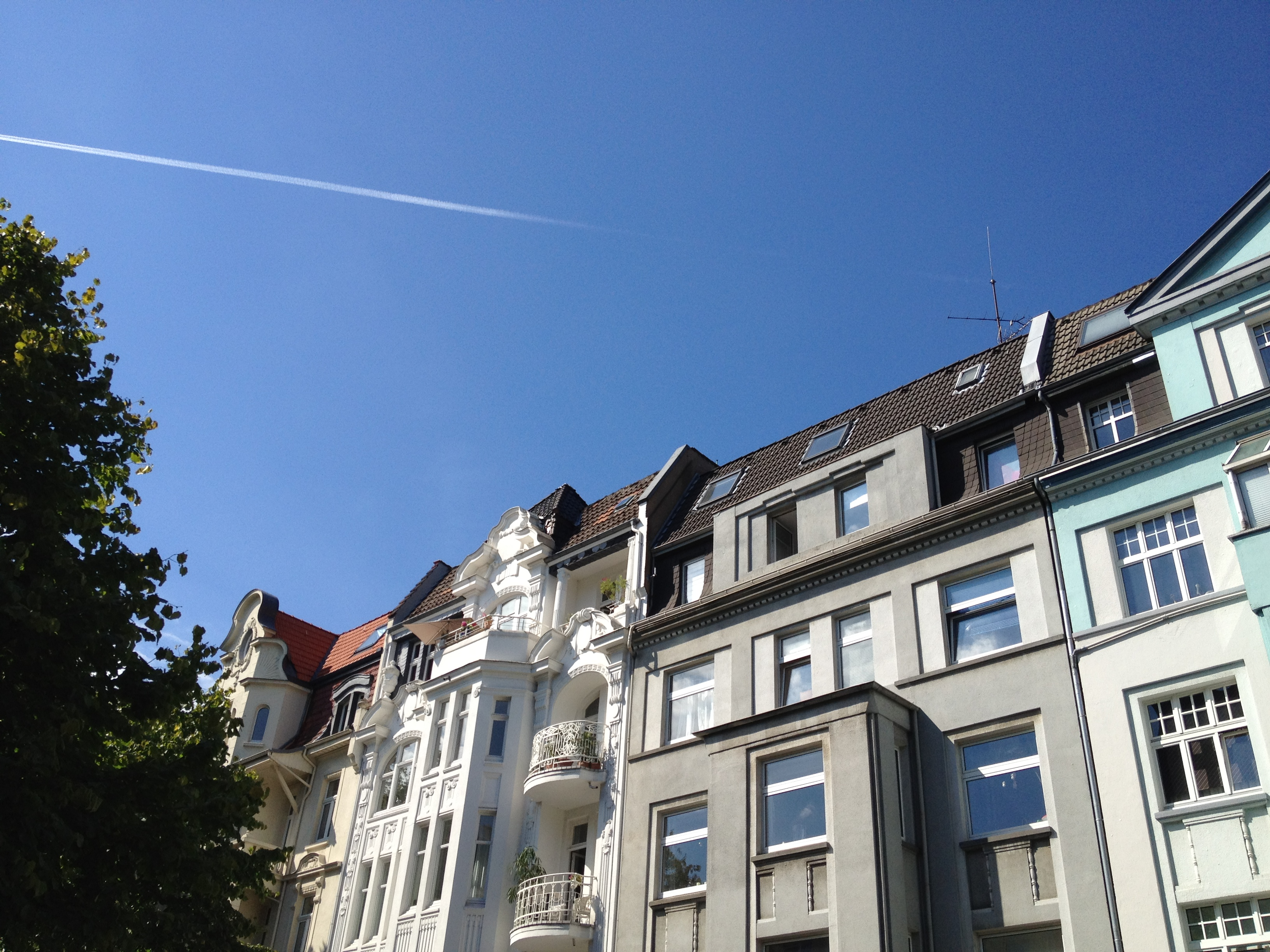 Resident area Kreuzviertel